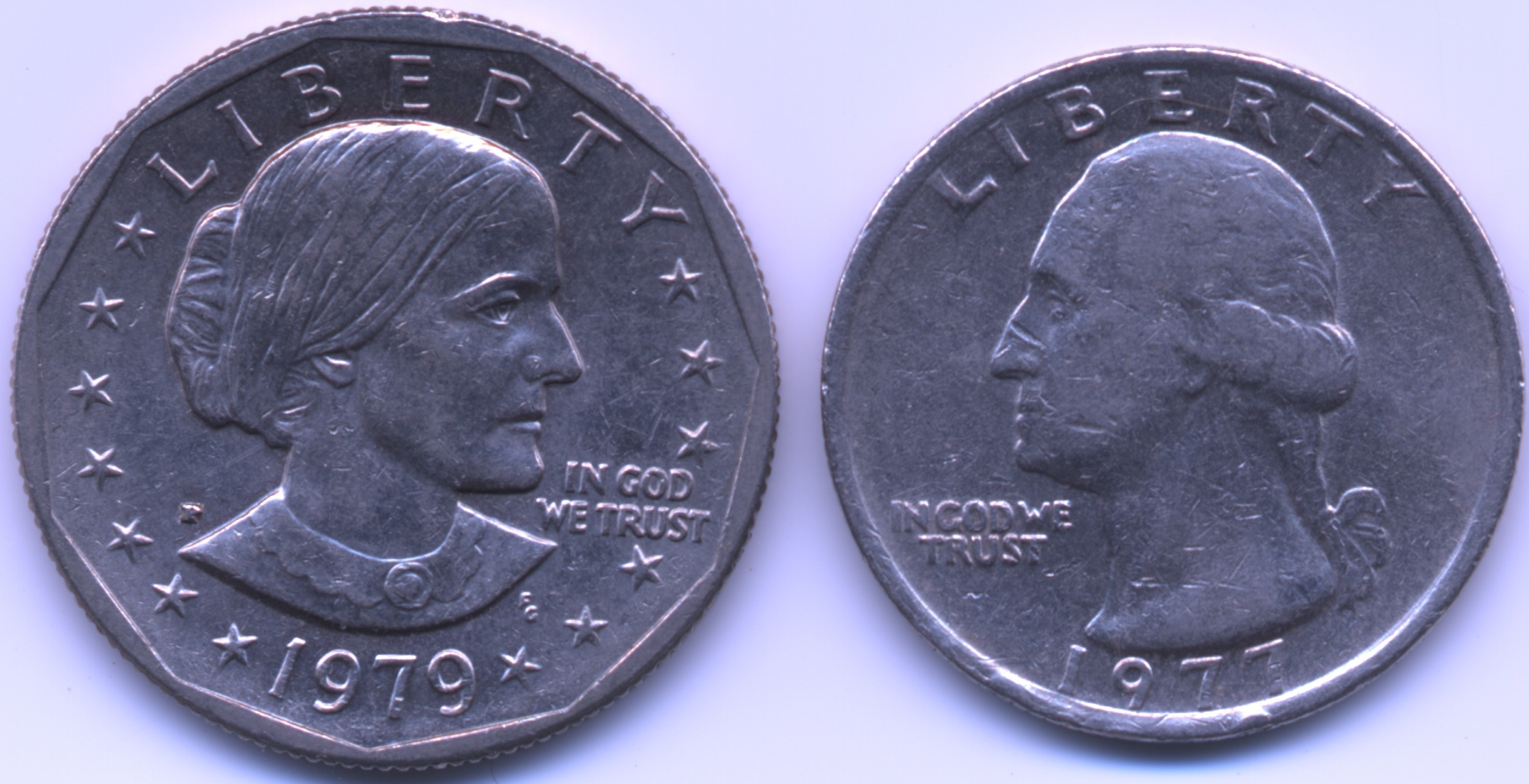 A comparison of a Susan B. Anthony dollar and Washington quarter